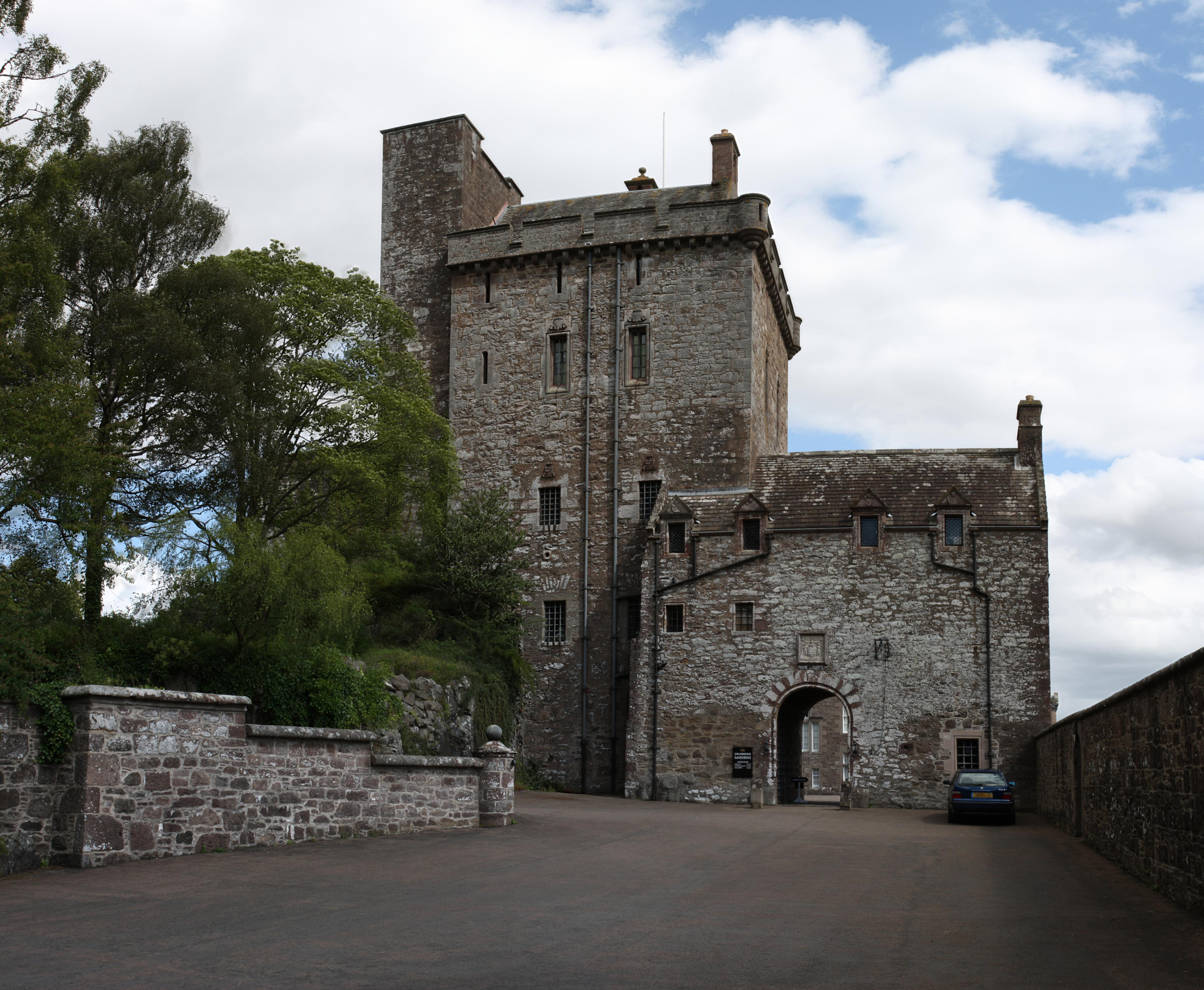 Drummond Castle.